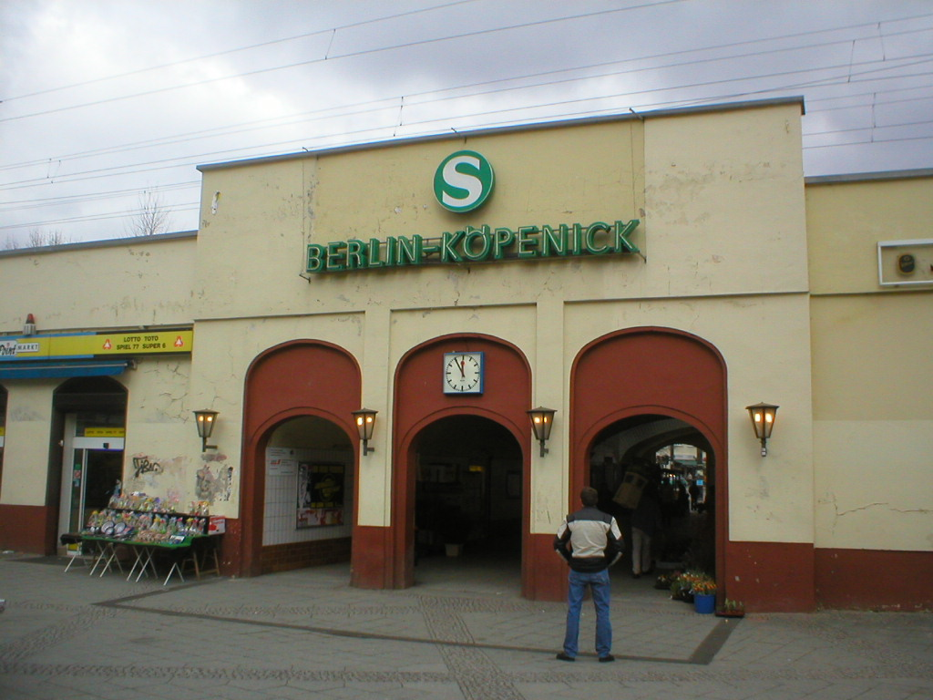 entrance building of the Berlin train station Köpenick, Berlin, Germany